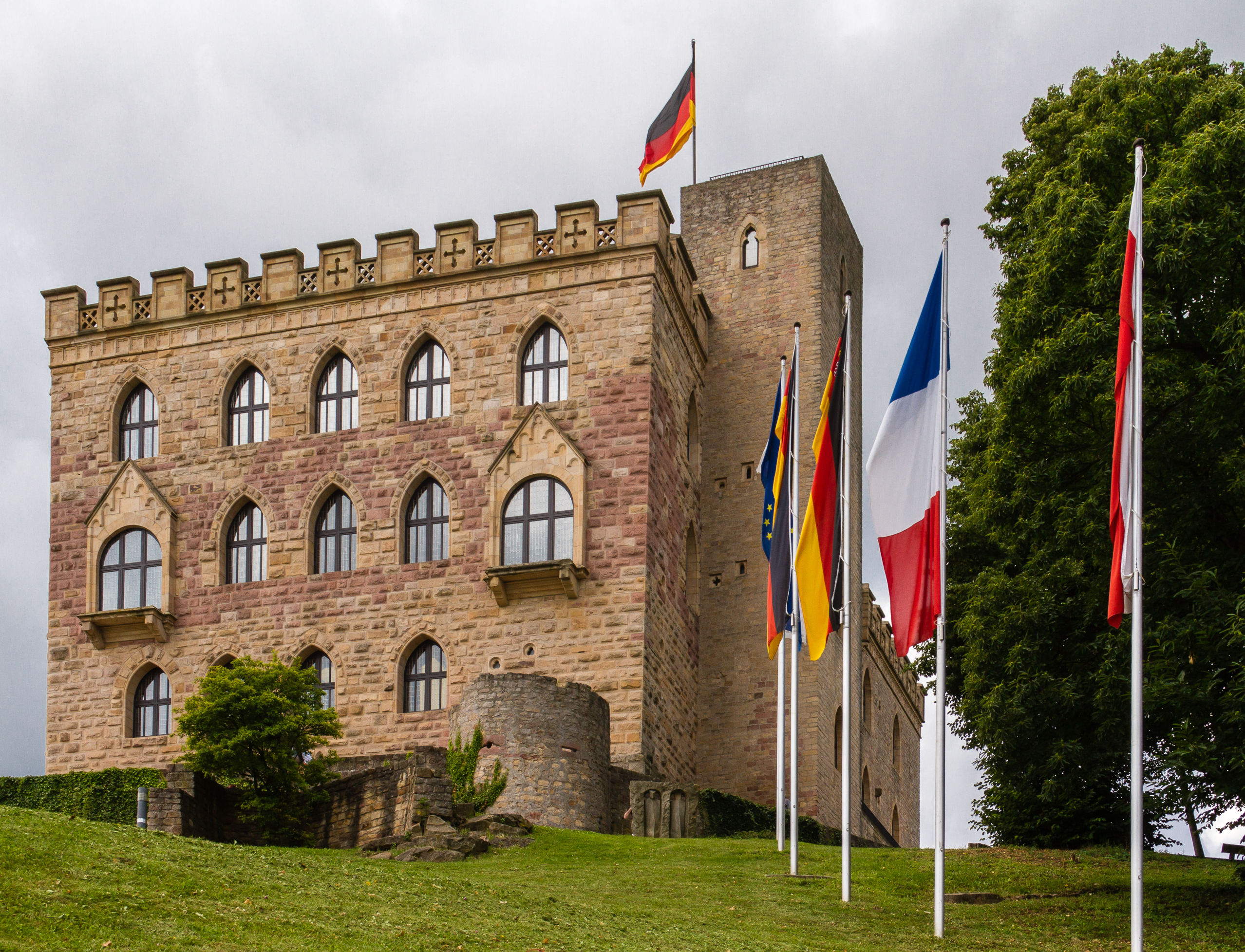 Designation: Monument zone Hambach Castle (also Maxburg) Location: At the top of a wooded foothill on the Haardtrand, southwest of the village on the Schlossberg. Place: Quarter Hambach, Neustadt an der Weinstraße, Rhineland-Palatinate, Germany Construction time: Founded probably in the first half of the 11th century. Description: From 1100 to the early 19th century owned by the cathedral chapter of Speyer, expanded several times, especially in the 13th century. Multiple restored, slighting 1688, under Crown Prince Maximilian 1845-46 neo-Gothic extension by August von Voit. Reinstatement 1955-57 and 1965-69. 1979-82 thorough restoration and complete interior design (architects H. Augeneder, Bad Dürkheim and H. Römer, Kaiserslautern). Restoration of the outer circular wall 1994 to 2000, conversion from 2006 onwards. Remains of a post-Carolingian Ottonian wall (9th / 10th. Century). Partially developed ruin of the "Kestenburg", remains of the donjon, probably about 1200, high facing, four-storey Palas of the 13th century, outer ring wall. Small residuals of the neo-Gothic castle.